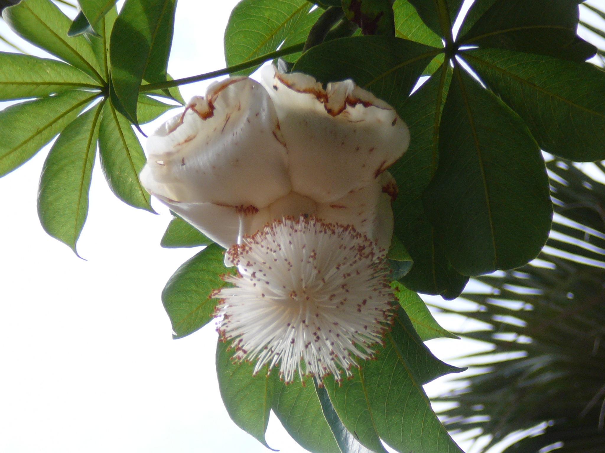 Adansonia digitata